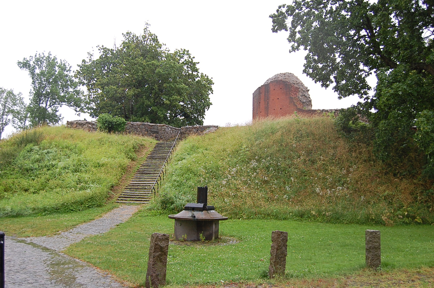 The stairs up to the ruins of the castle of Sölvesborg. In the front is a modell of the castle.